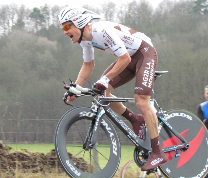 Nicolas Roche at Paris-Nice 2012